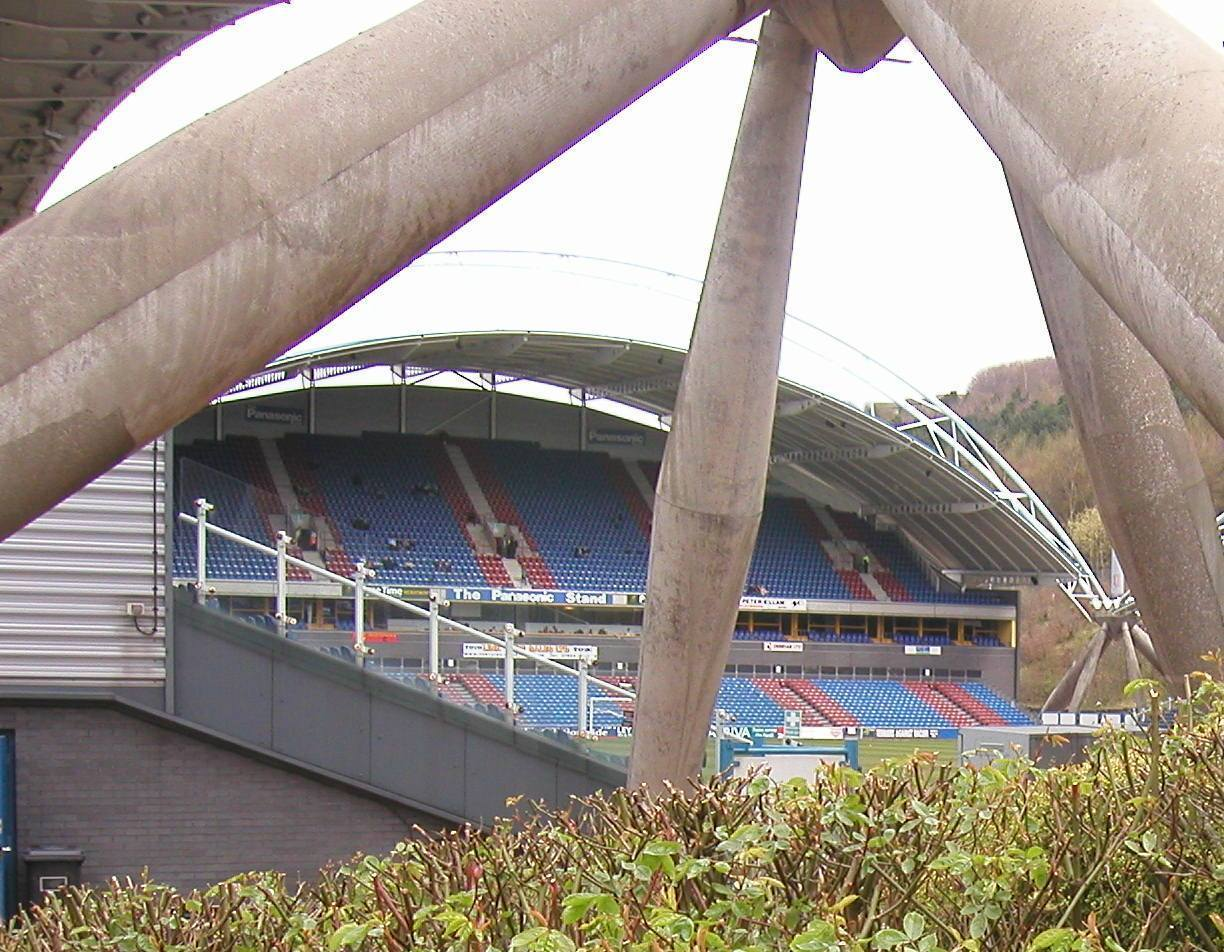 Galpharm Stadium - Home of Huddersfield Town Attribution must be in the form: Photographer: Gareth J Dykes